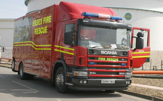 Essex Fire and Rescue Truck